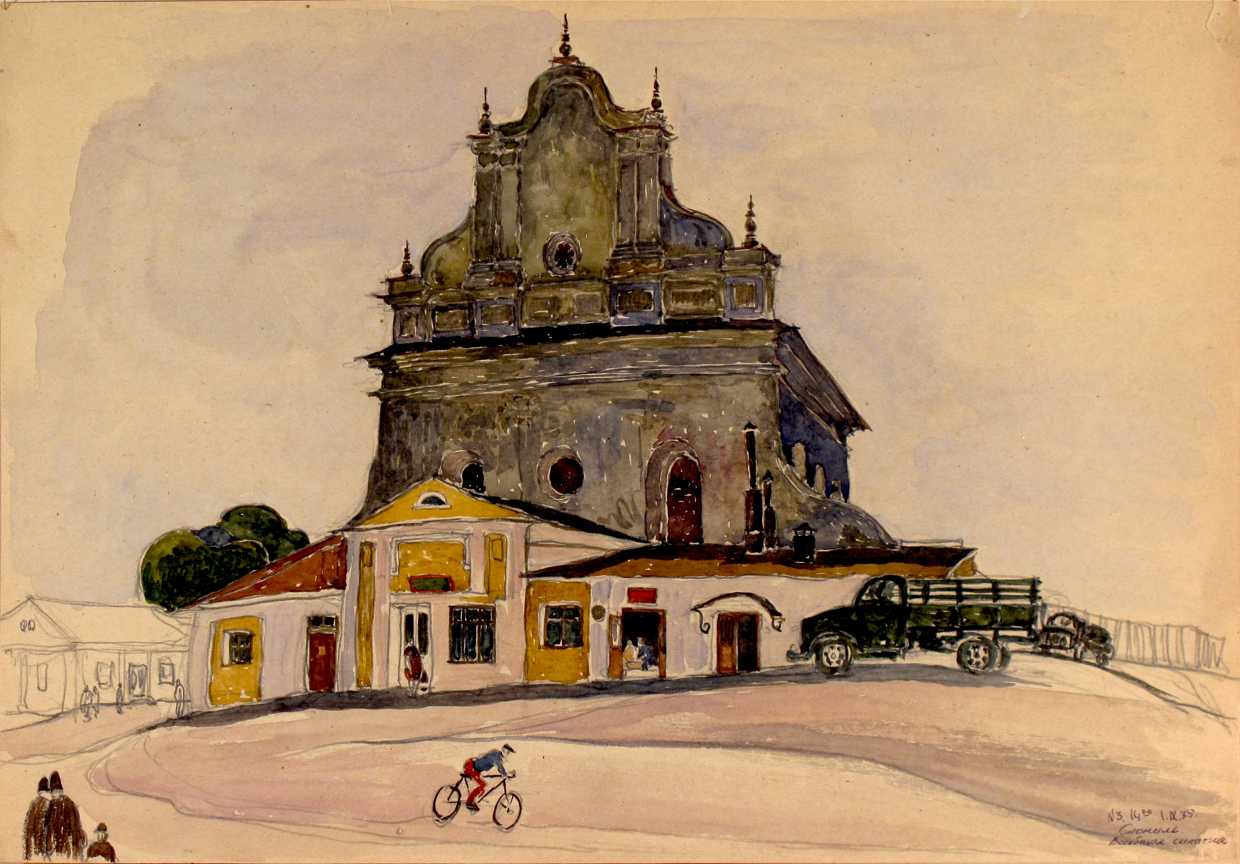 Synagogue in Slonim by belarusian artist Valery Sliunchanka. Watercolor painting